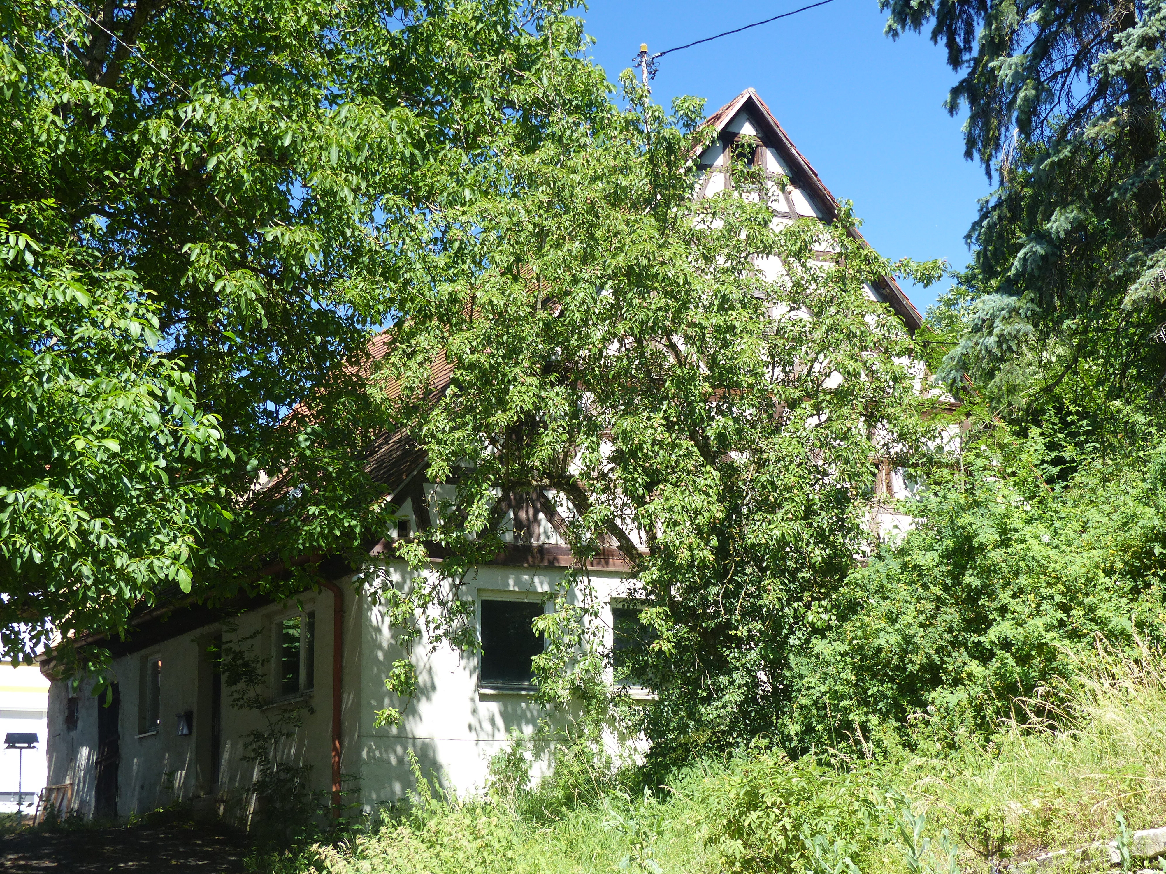 The byre-dwelling house Rangen 4 in the hamlet Rangen, a district of the town of Gräfenberg.